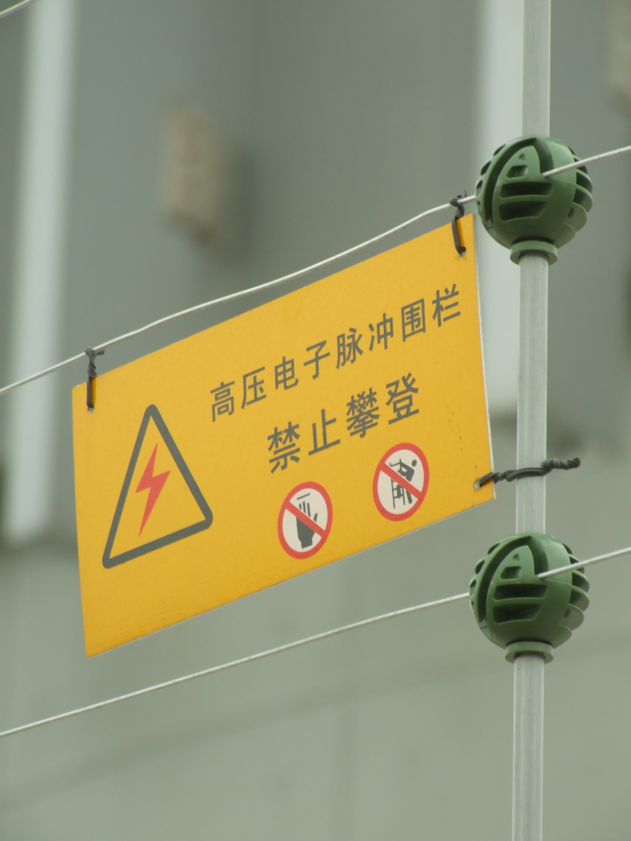 The electric fence in Expo 2010